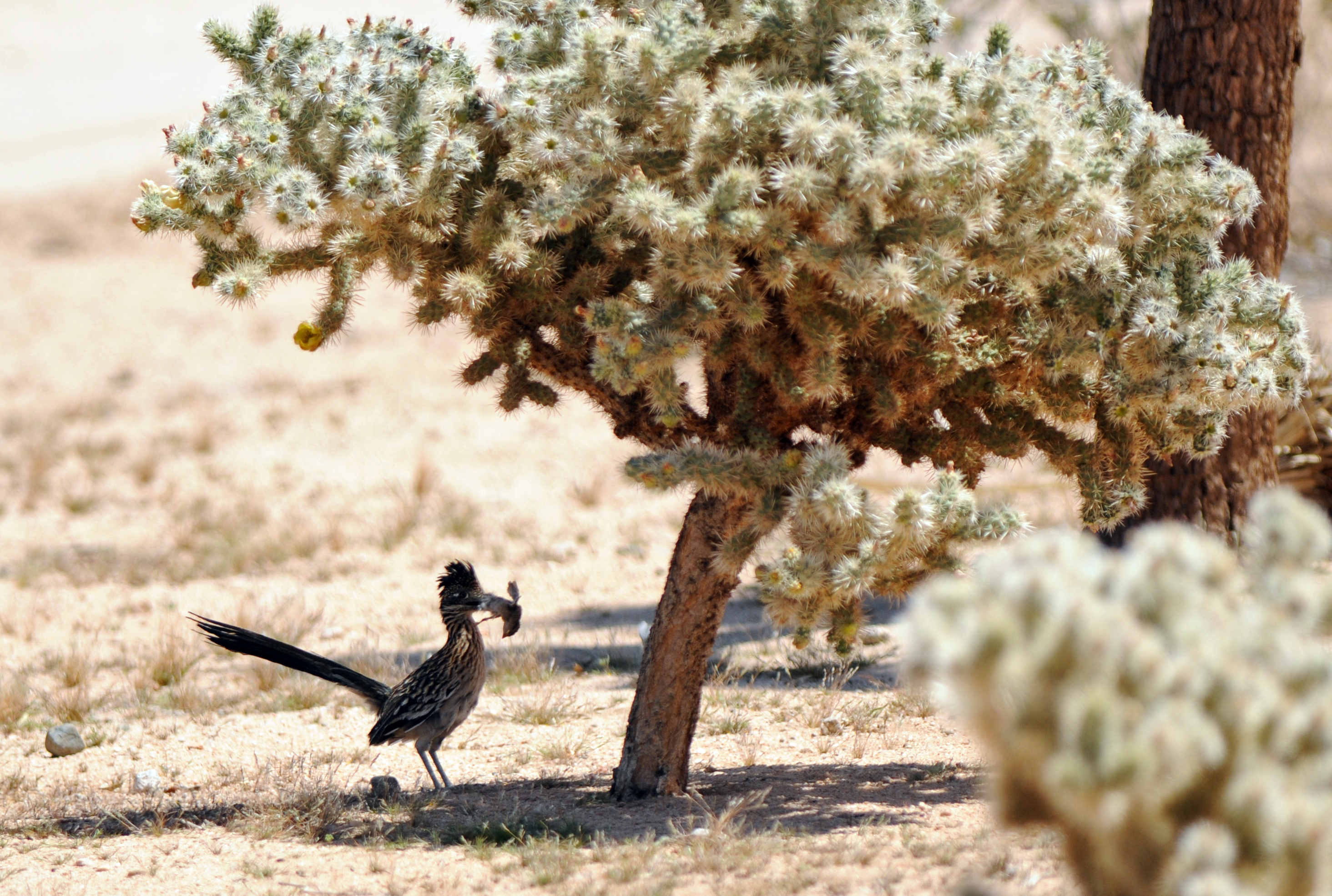 Greater Roadrunner (Geococcyx californianus) with Gambel's quail chick (Callipepla gambelii), Joshua Tree National Park. NPS/Brad Sutton